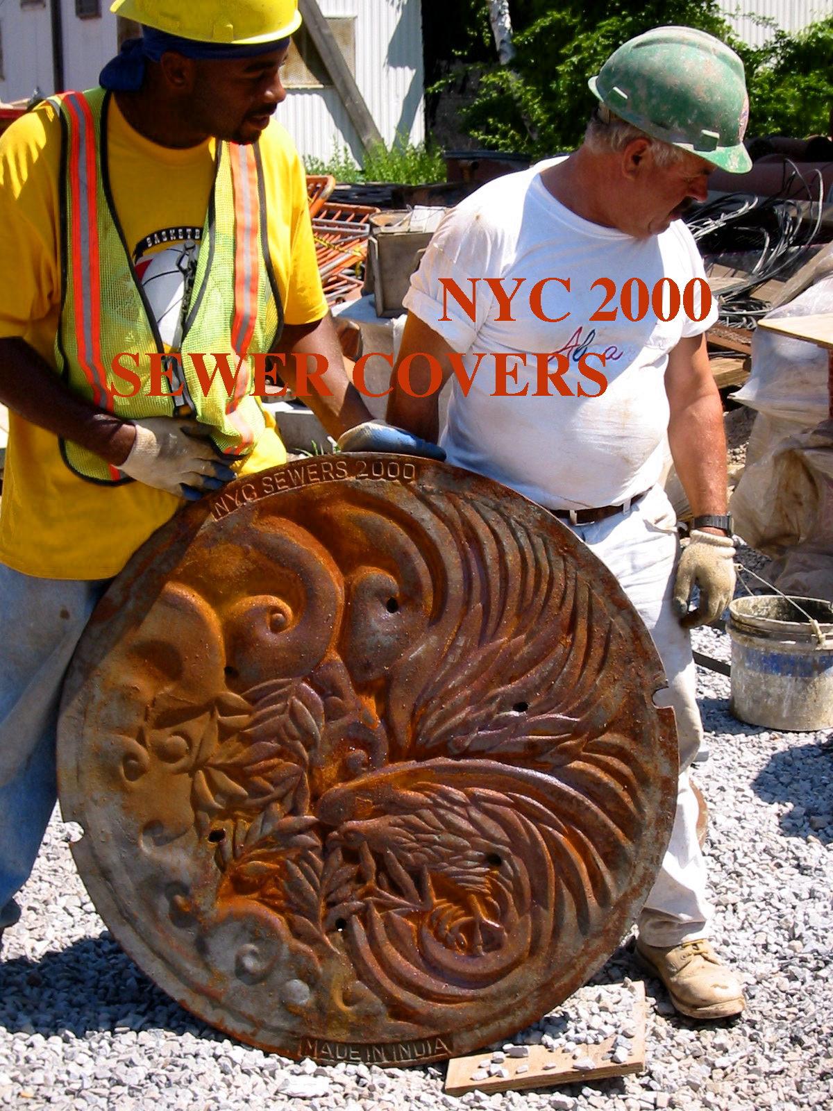 NYC- Staten Island Manhole Cover, designed by Elizabeth Turk